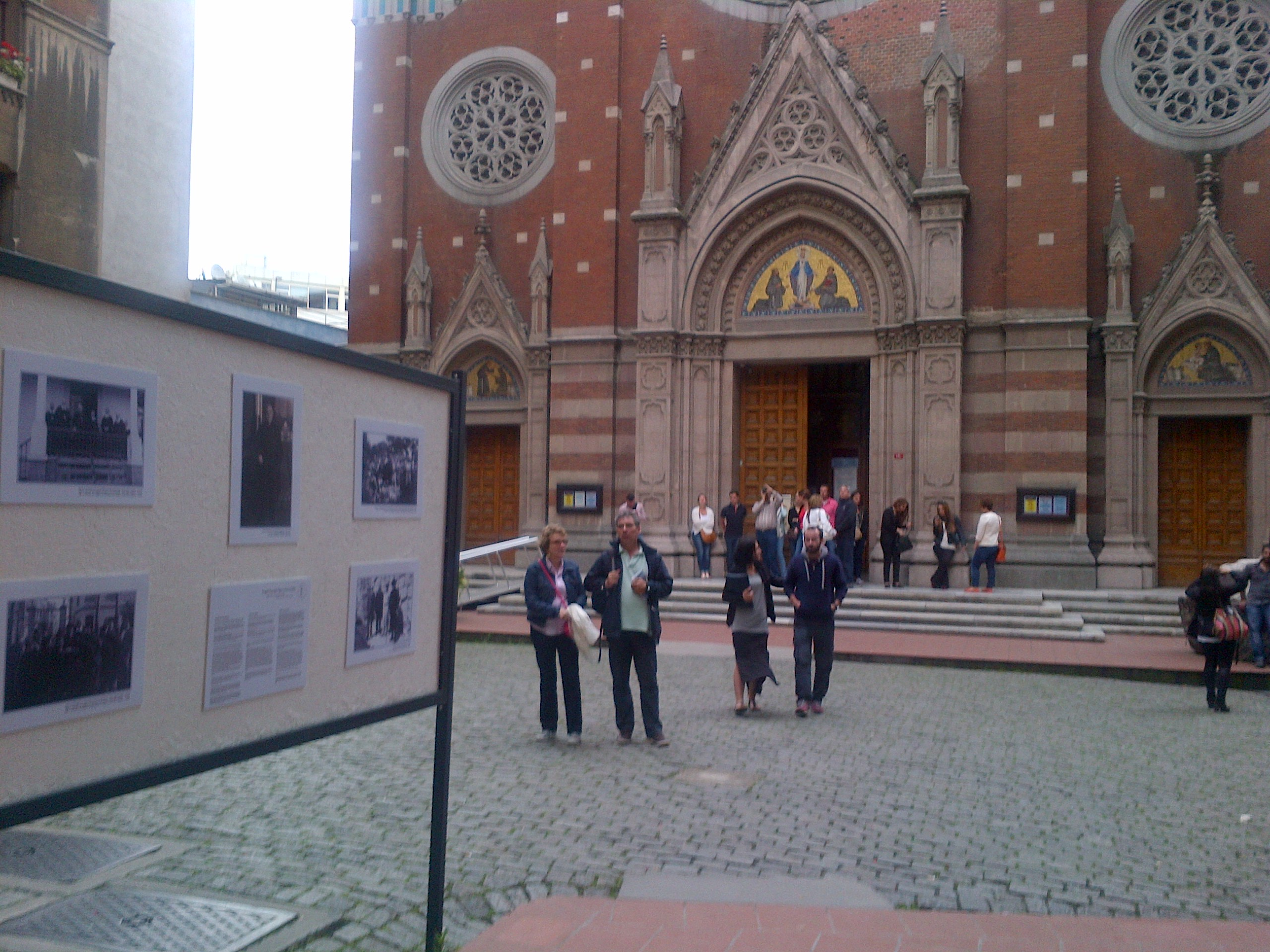 Church of St. Anthony in Estambul. June 2014 exhibition dedicated to the Pope John XXIII.